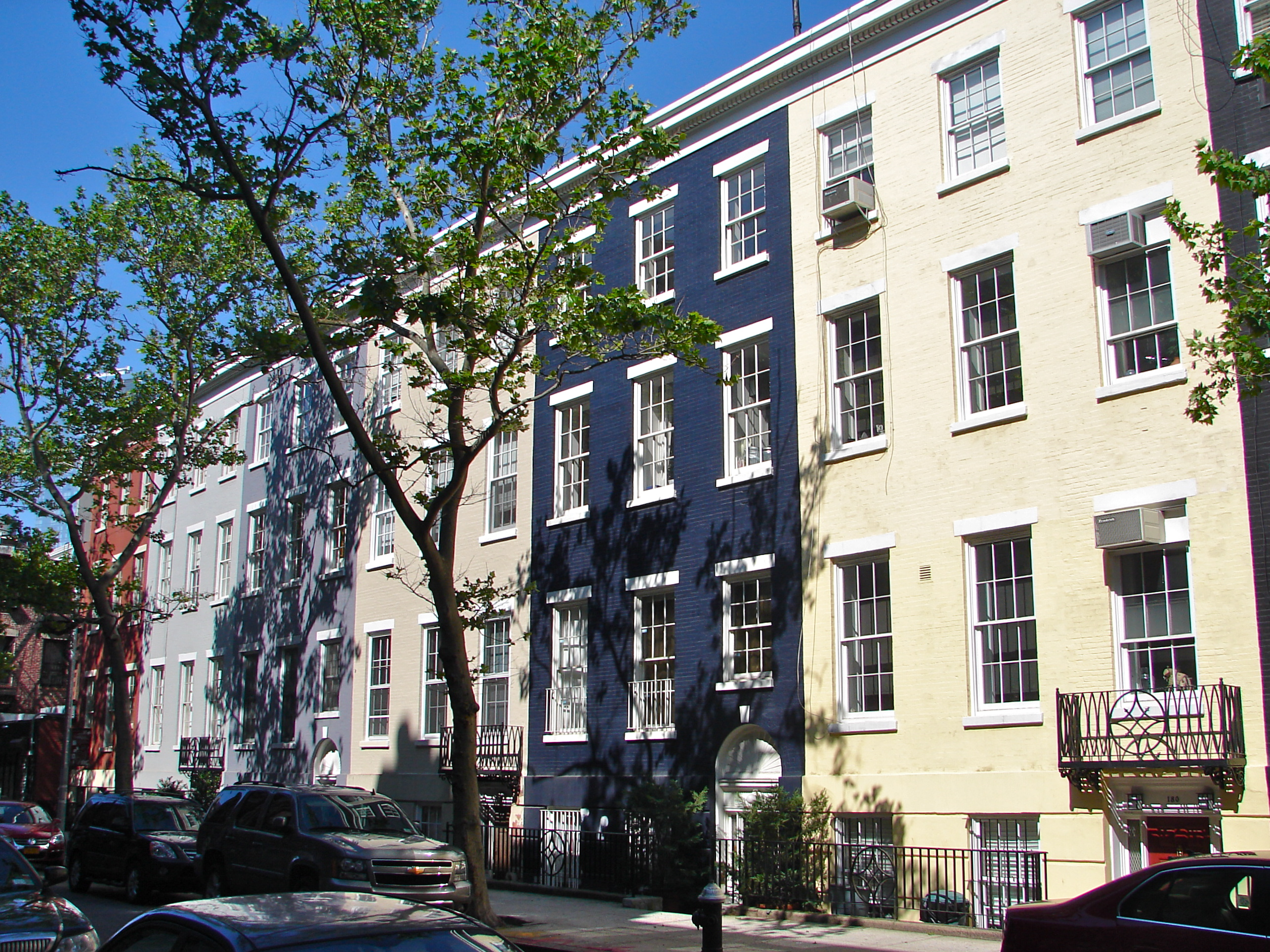 Houses 170-180 Sullivan Street in the MacDougal-Sullivan Gardens Historic District, on the NRHP since June 30, 1983. The historic district includes 74-96 MacDougal St., and 170-188 Sullivan St., in Greenwich Village, New York, New York.